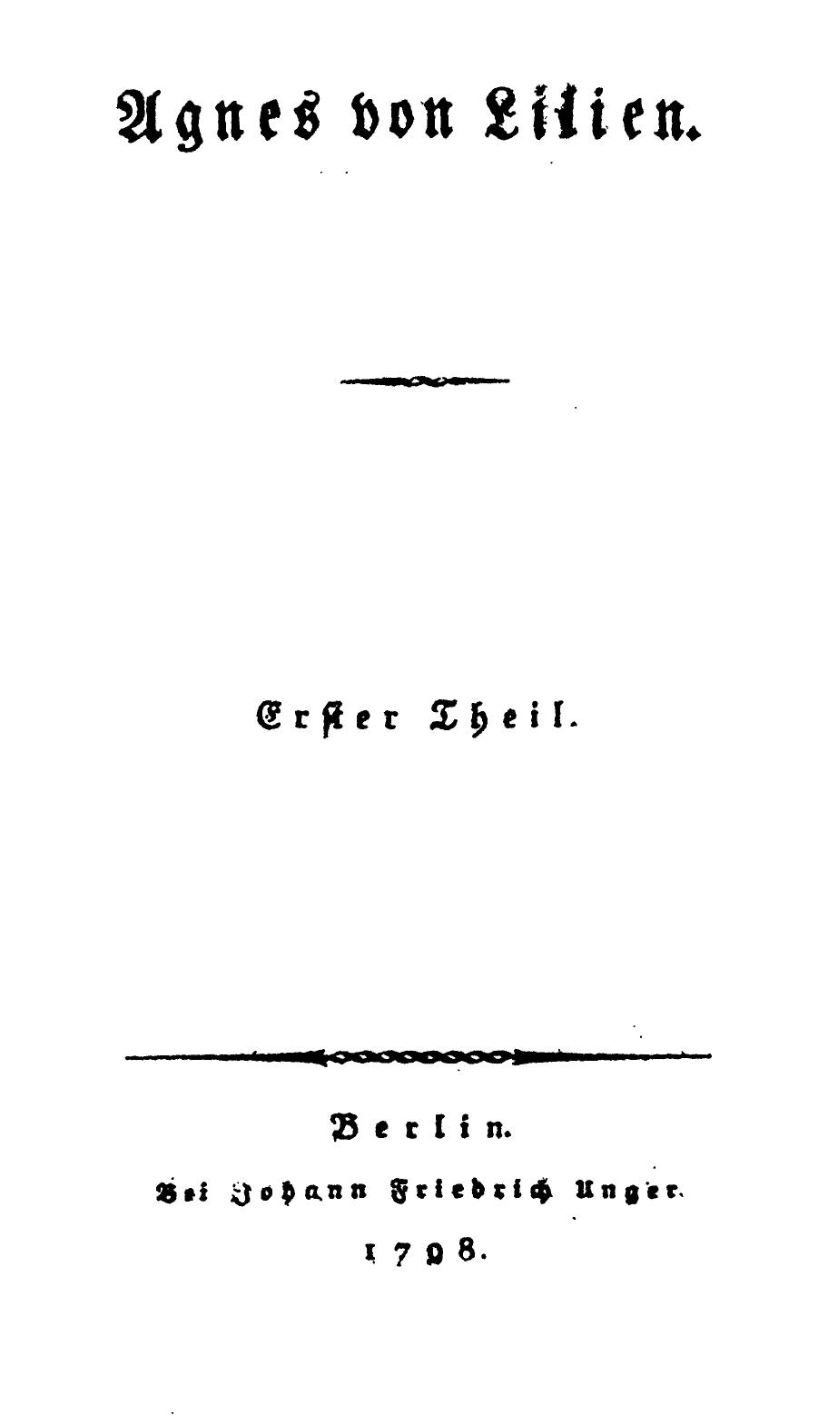 This is a scan of the historical document